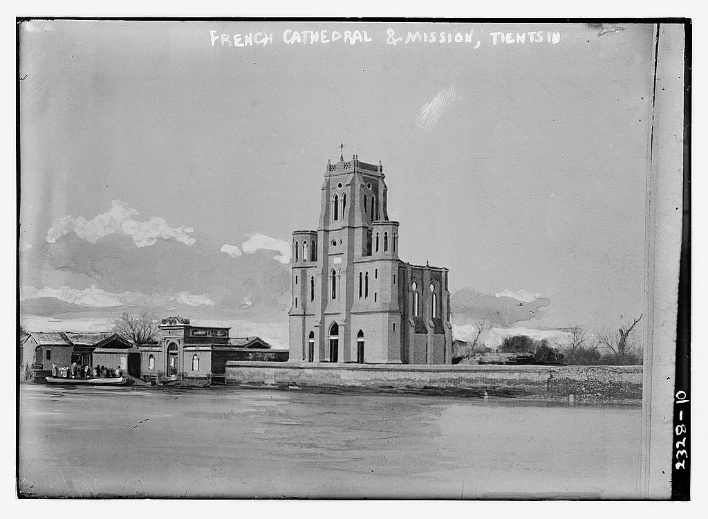 Bain News Service,, publisher. French Cathedral & Mission, Tientsin [between ca. 1910 and ca. 1915] 1 negative : glass ; 5 x 7 in. or smaller. Notes: Title from unverified data provided by the Bain News Service on the negatives or caption cards. Forms part of: George Grantham Bain Collection (Library of Congress). Subjects: Tientsin Format: Glass negatives. Repository: Library of Congress, Prints and Photographs Division, Washington, D.C. 20540 USA, General information about the Bain Collection is available at Persistent URL: Call Number: LC-B2- 2328-10